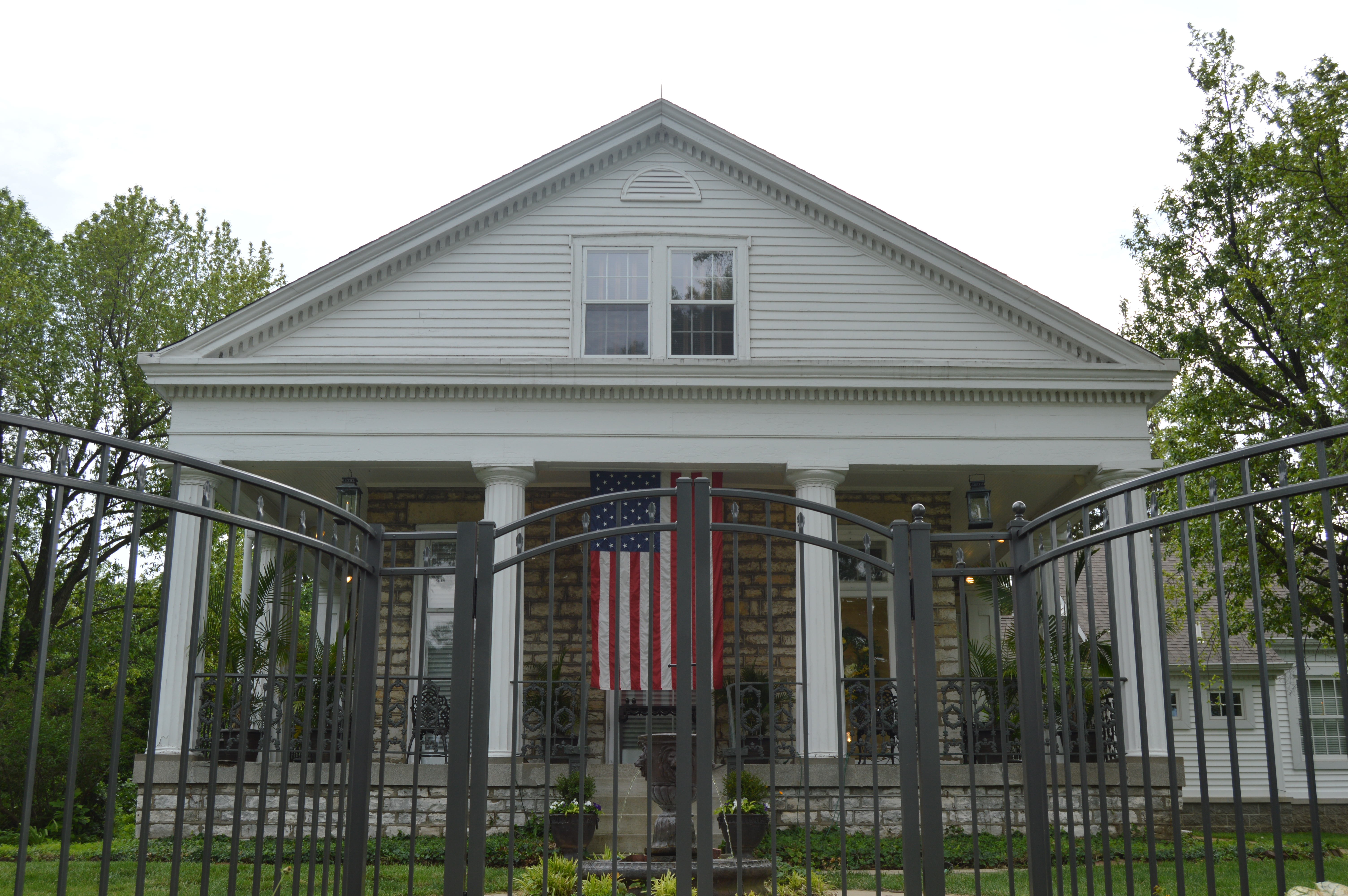 Front of the Post House, located at 1516 State Street in Alton, Illinois, United States. Built in 1837, it is listed on the National Register of Historic Places.